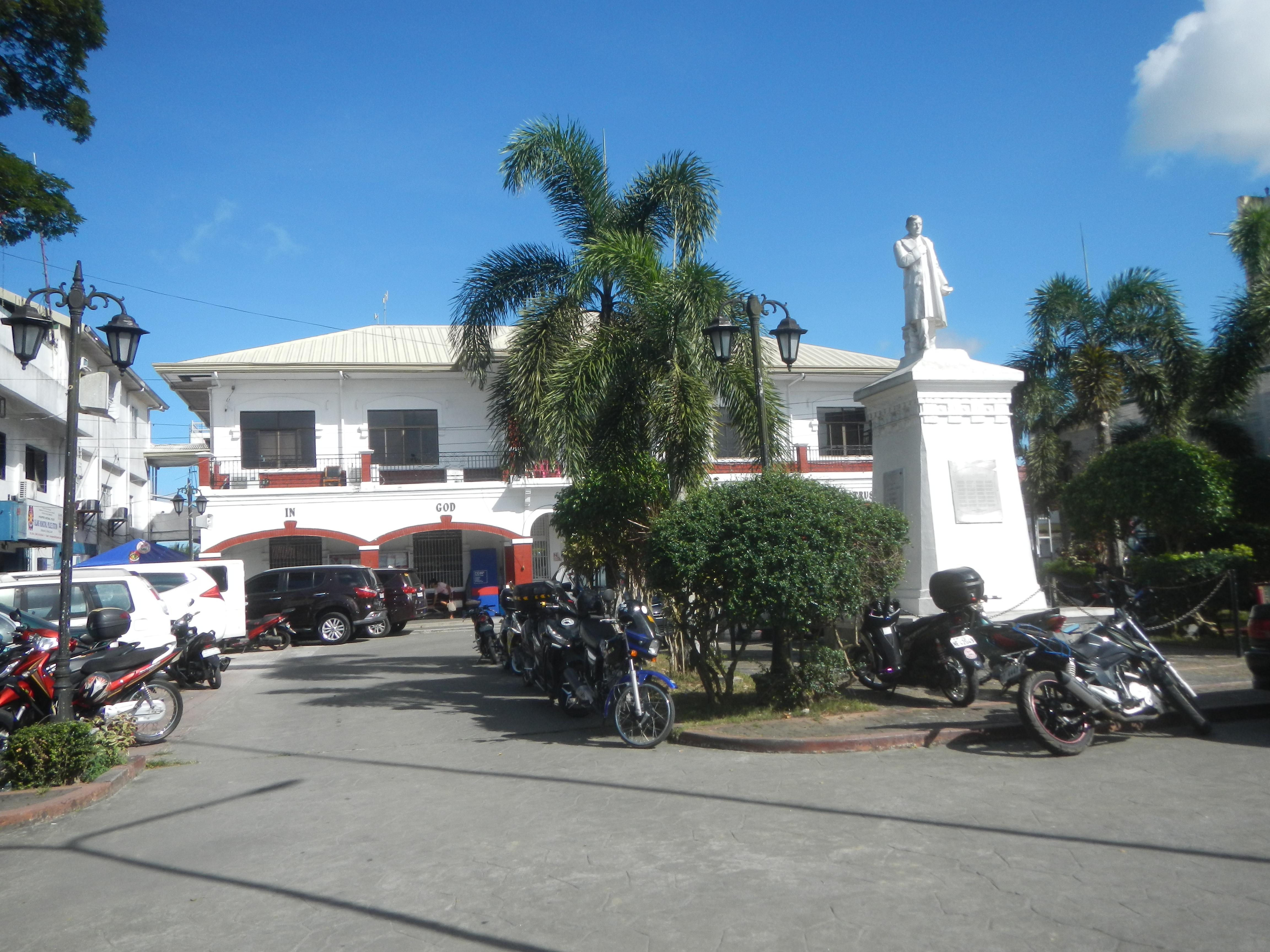 Silang town hall, plaza and Rizal monument Patio Medina (Poblacion, Silang, Cavite) Poblacion-San Vicente-Sabutan-Biga Road, Silang, Cavite from and along Silang Bypass Road (Silang Diversion Road), Aguinaldo Highway Aguinaldo Highway Aguinaldo Highway (Silang, Cavite) corner Governor's Drive Philippine highway network Barangays Poblacion Barangays 1, 2, 3, 4 & 5, Silang, Cavite 14°11'37"N 120°52'49"E Biga 1 & Biga 2, Silang, Cavite 14°15'12"N 120°58'17"E San Vicente 1 & 2, Silang, Cavite 14°13'49"N 120°58'13"E Silang, Cavite (Note: Judge Florentino Floro, the owner, to repeat, Donor Florentino Floro of all these photos hereby donate gratuitously, freely and unconditionally all these photos to and for Wikimedia Commons, exclusively, for public use of the public domain, and again without any condition whatsoever).